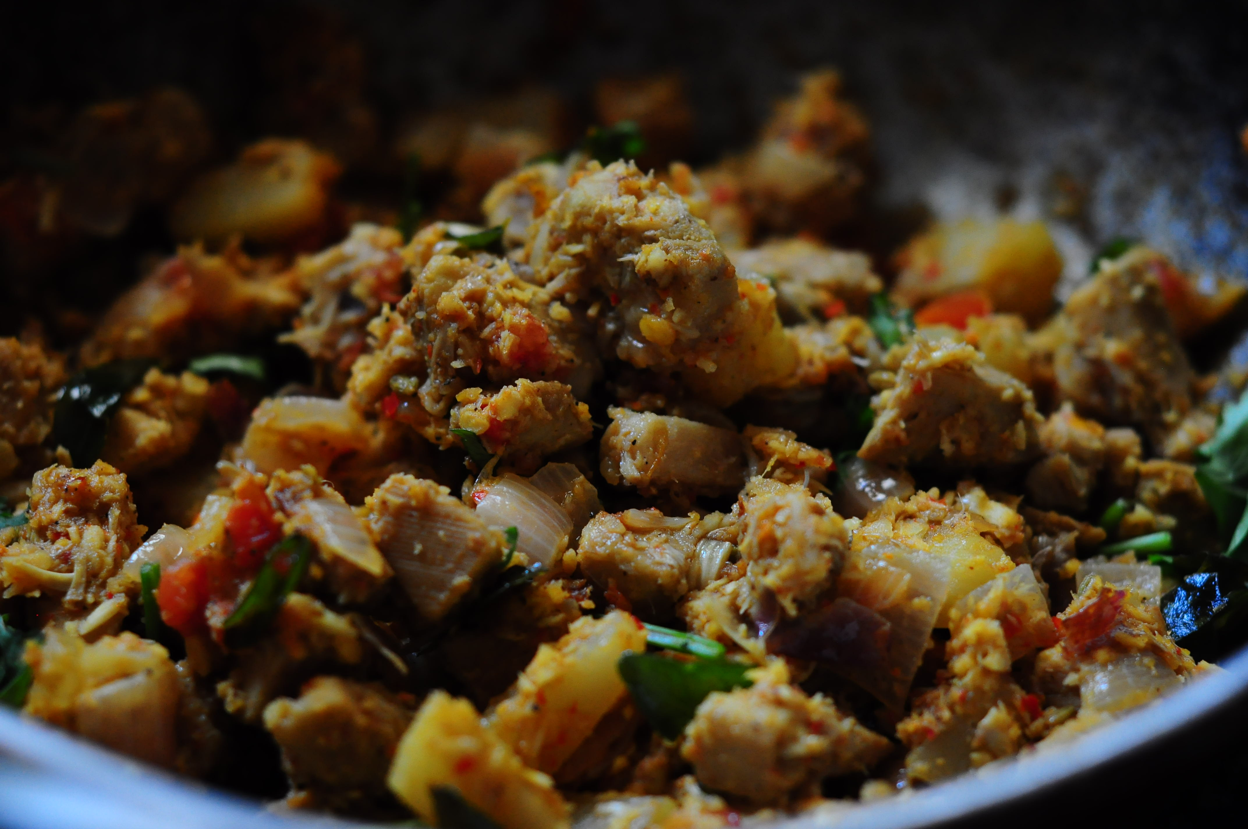 baby jackfruit masala